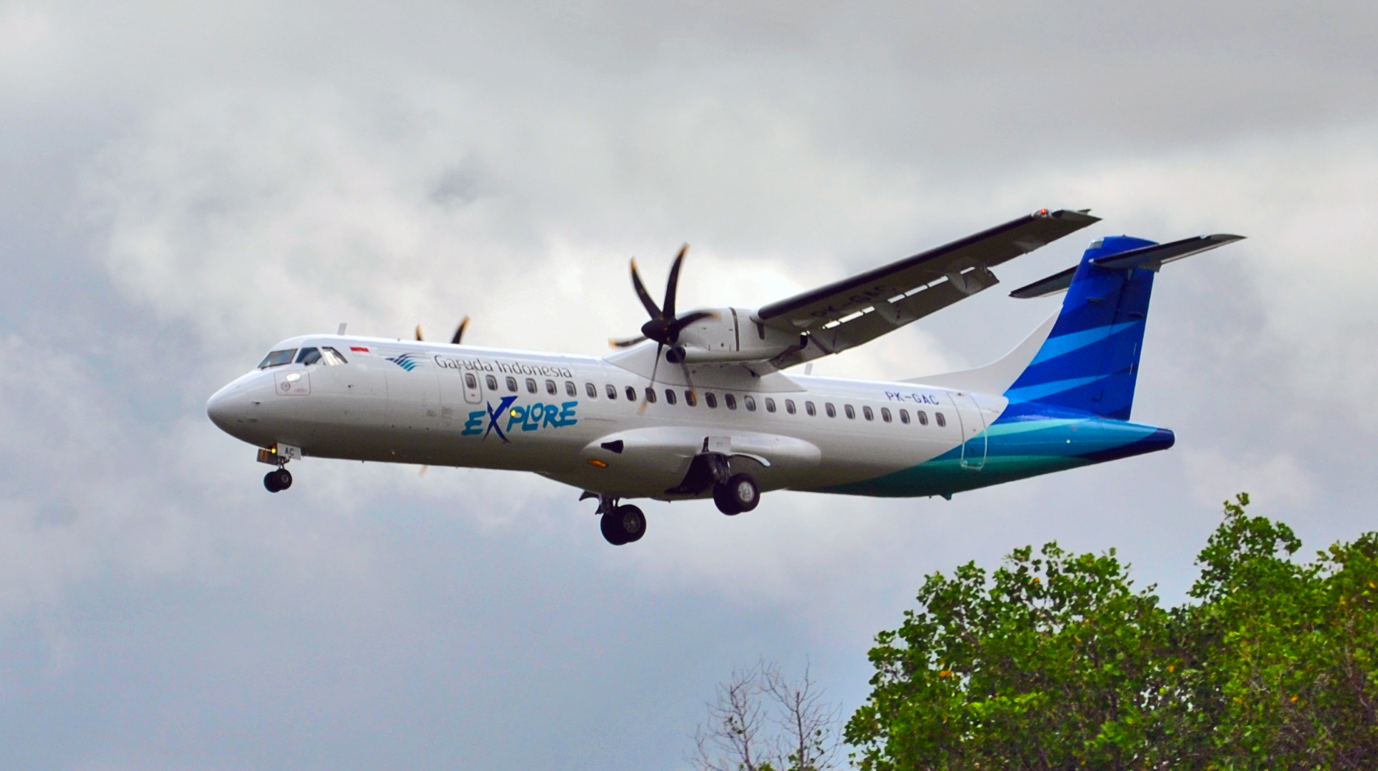 Another Garuda Indonesia (under Explore banner) ATR 72-600 (PK-GAC, ex-Airbus A300 reg. code) landing at I Gusti Ngurah Rai International Airport, Tuban, Badung Regency, Bali, Indonesia.